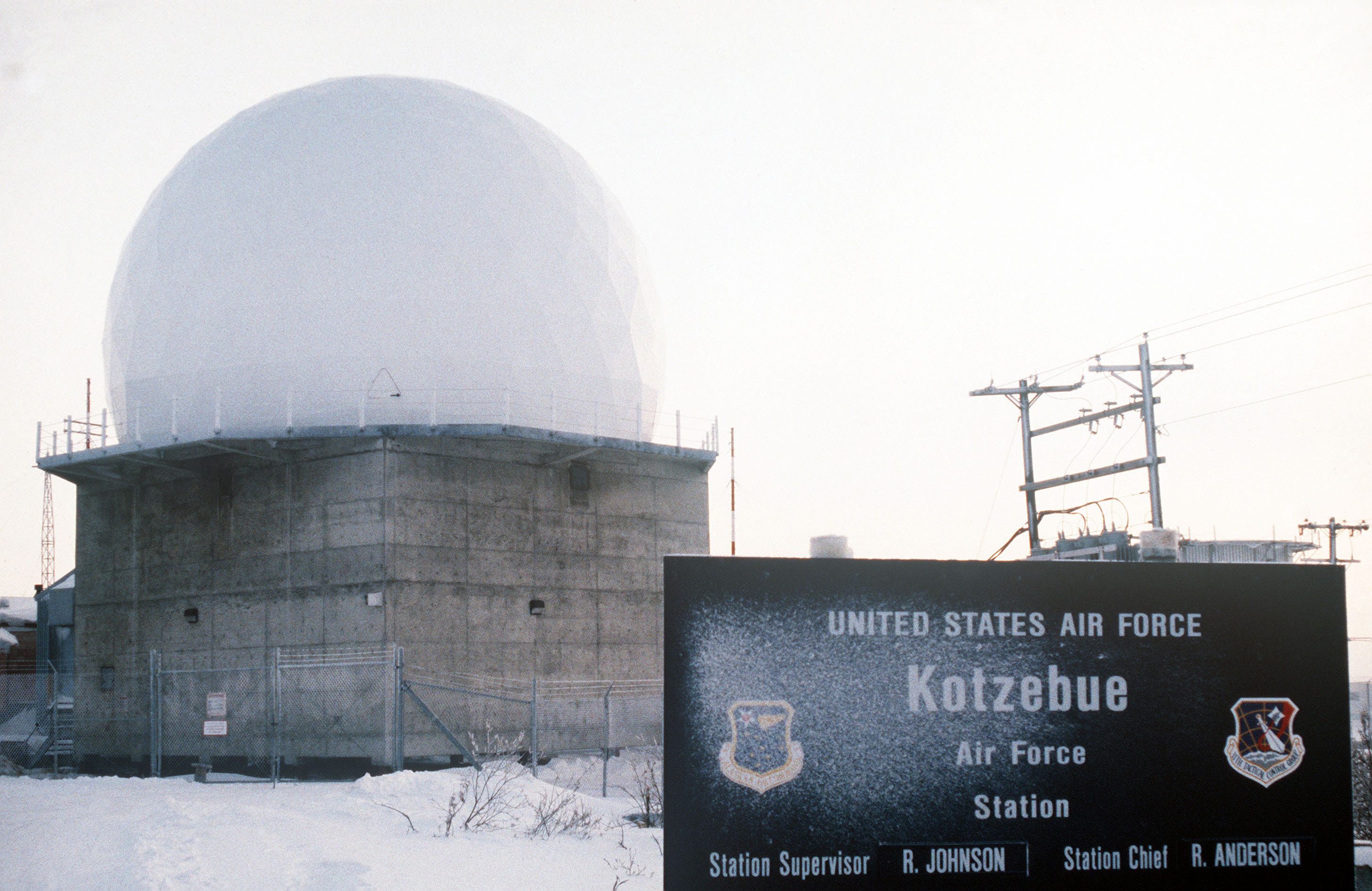 A view of the sign at the entrance to the station and the long-range radar system installation, which is operated and maintained by the station's personnel. Location: KOTZEBUE AIR FORCE STATION, ALASKA (AK) UNITED STATES OF AMERICA (USA)